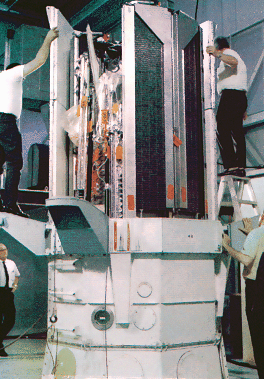 Assembly of OGO-6 satellite.